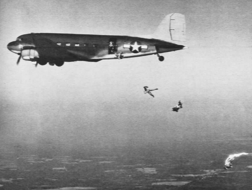 U.S. Marines making practice parachute jumps out of a Douglas R4D, in late 1943. Note the high altitute of the R4D.